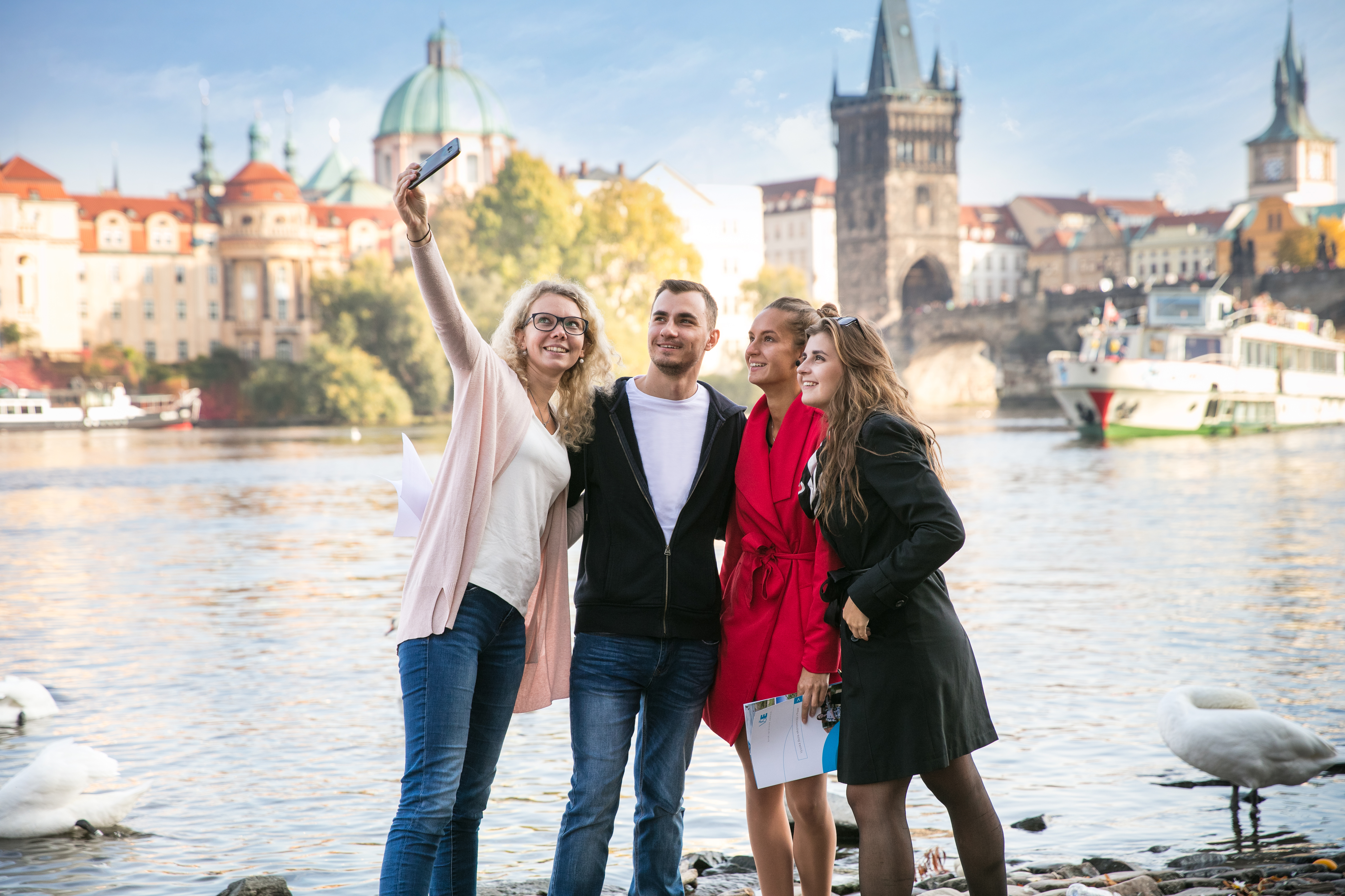 Students in Prague, Czech Republic